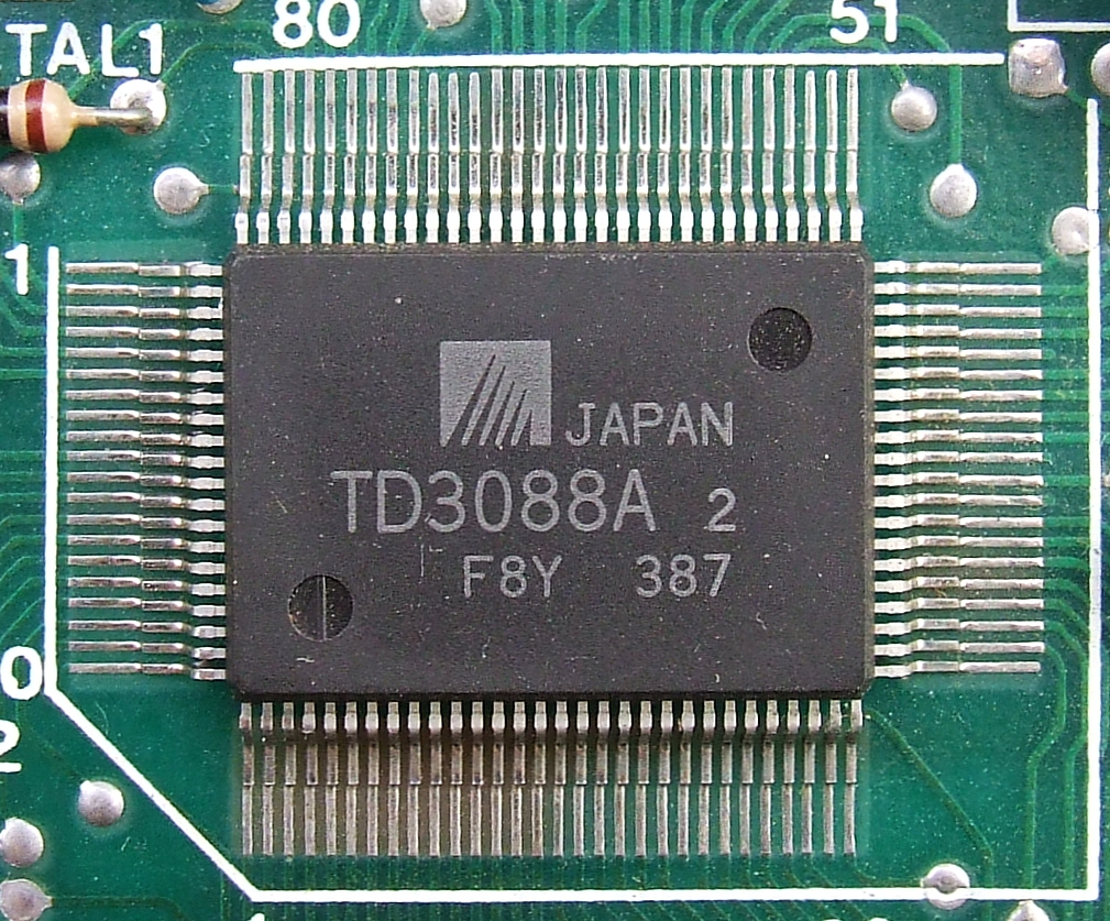 Tamarack Microelectronics TD3088A video display controller of an unidentified HGC-compatible (64 KB) video card.